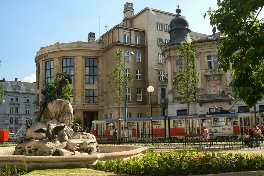 comuni